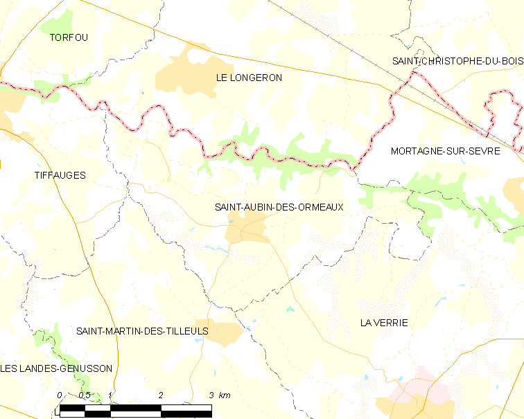 Map of French municipality Saint-Aubin-des-Ormeaux